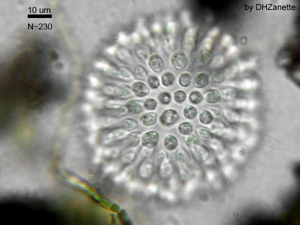 Sphaeroeca, a colony of choanoflagellates (aproximately 230 individuals)